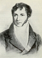 Michał Kleofas Ogiński, polish prince, composer